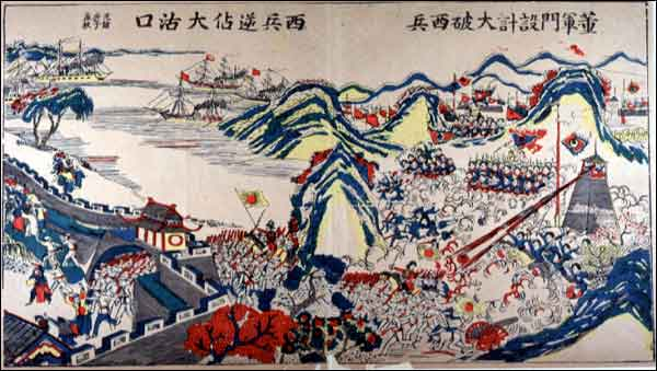 Nianhua print: The taking of the Dagu forts The taking of the Dagu forts Nianhua prints present the Chinese version of the Boxer uprising, in contrast to the many books published by Westerners. This nianhua, with its lake-side willows, plum blossom and pine-covered mountains, celebrates the attack by Dong Fuxiang's troops on the Dagu (Taku) forts which guarded the coast near Tianjin. Encouraging news of this temporarily successful attack encouraged the Dowager Empress to declare war, putting the Chinese government firmly behind the Boxers.